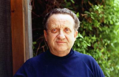 Photograph